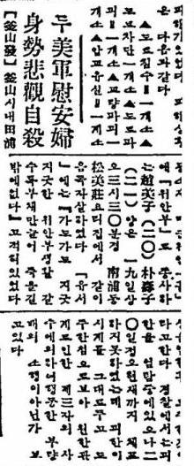 Two young comfort women suicided in Busan, South Korea.